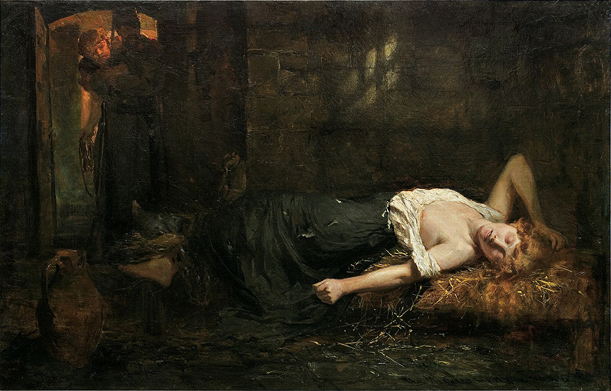 The Nihilist